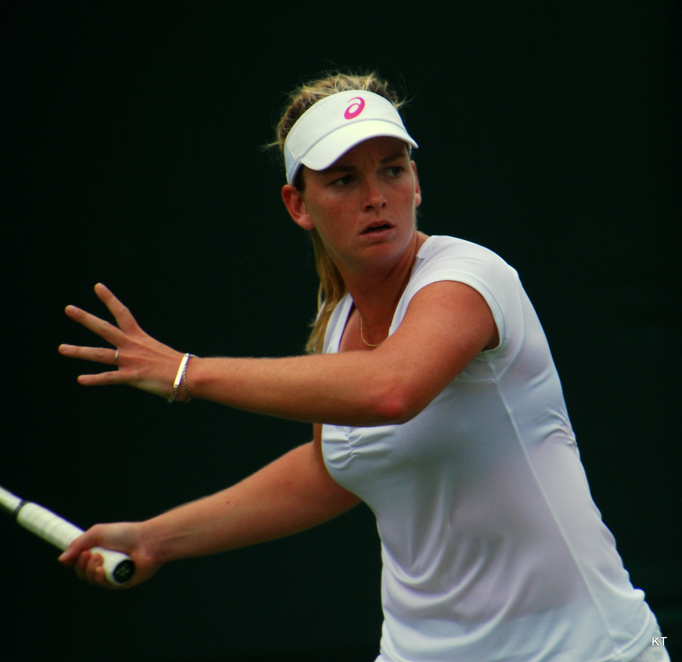 Coco Vandeweghe at day 1 of Wimbledon 2014.